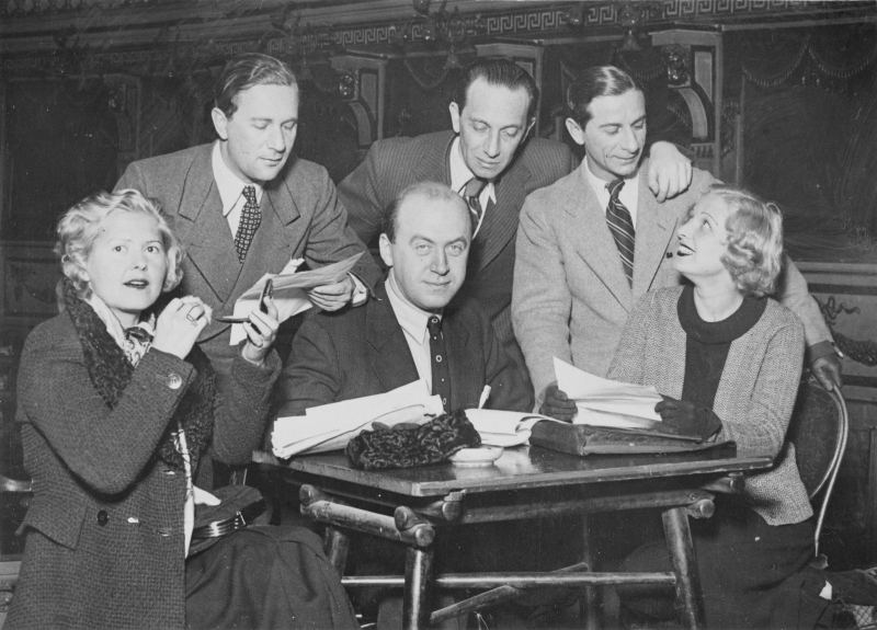 Bildnis in Gruppe zusammen mit Liane Haid, Rosy Barsony, Oskar Karlweis, Paul Abraham und Tibor von Halmay, im Theater an der Wien. Repronegativ nach Foto